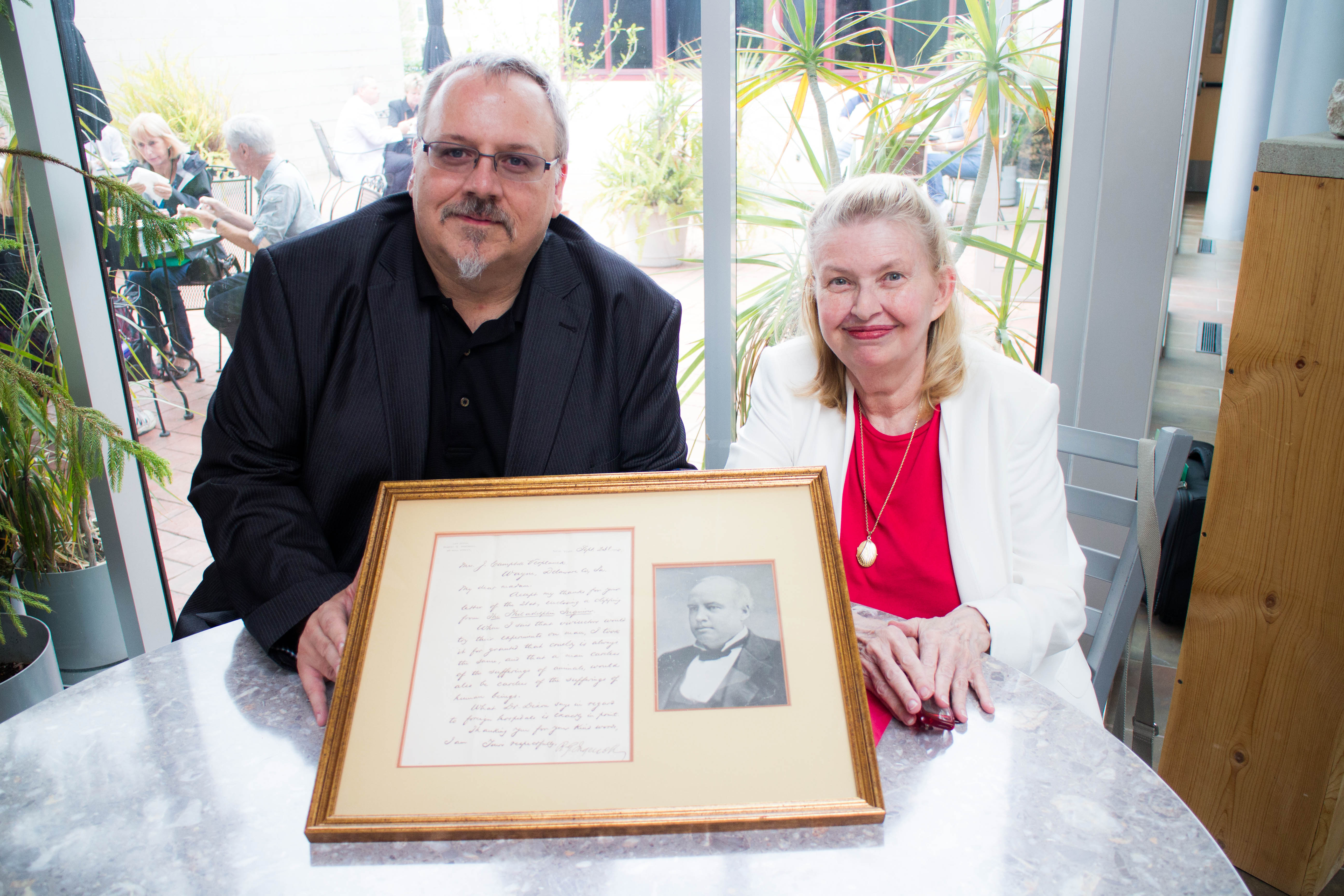 Center for Inquiry Libraries Director Tim Binga and historian/author Susan Jacoby display a rare artifact from the CFI Libraries collection, a letter in Ingersoll’s hand condemning vivisection and cruelty to animals. Photo by Monica Harmsen.